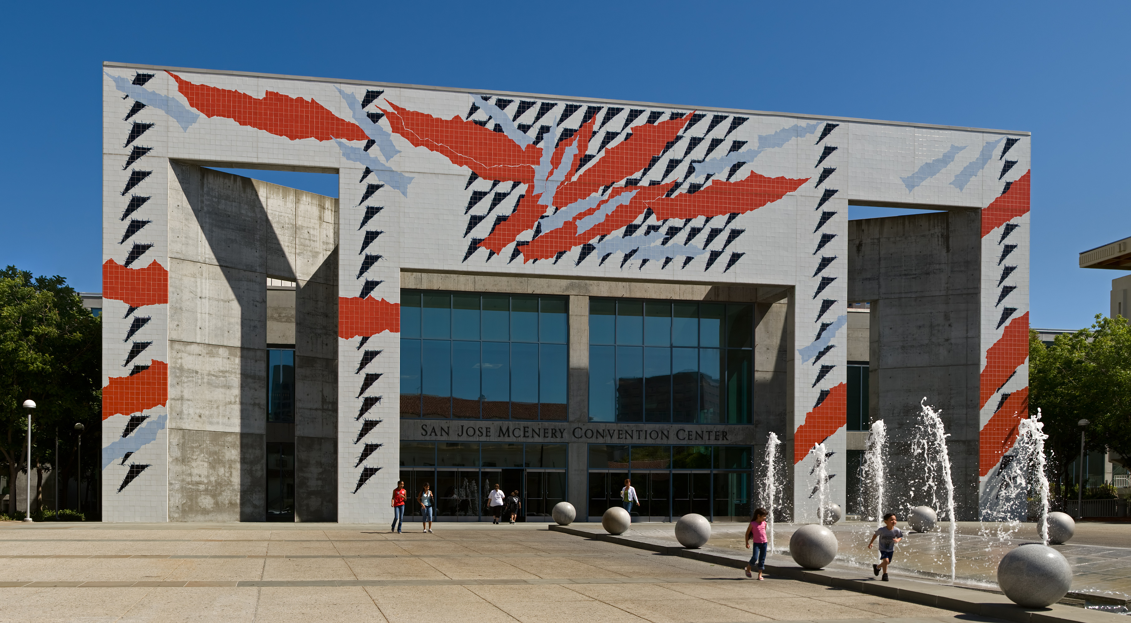 The San Jose Convention Center is the main convention center for San Jose, California, offering 143,000 sq ft (13,300 m²) of space.